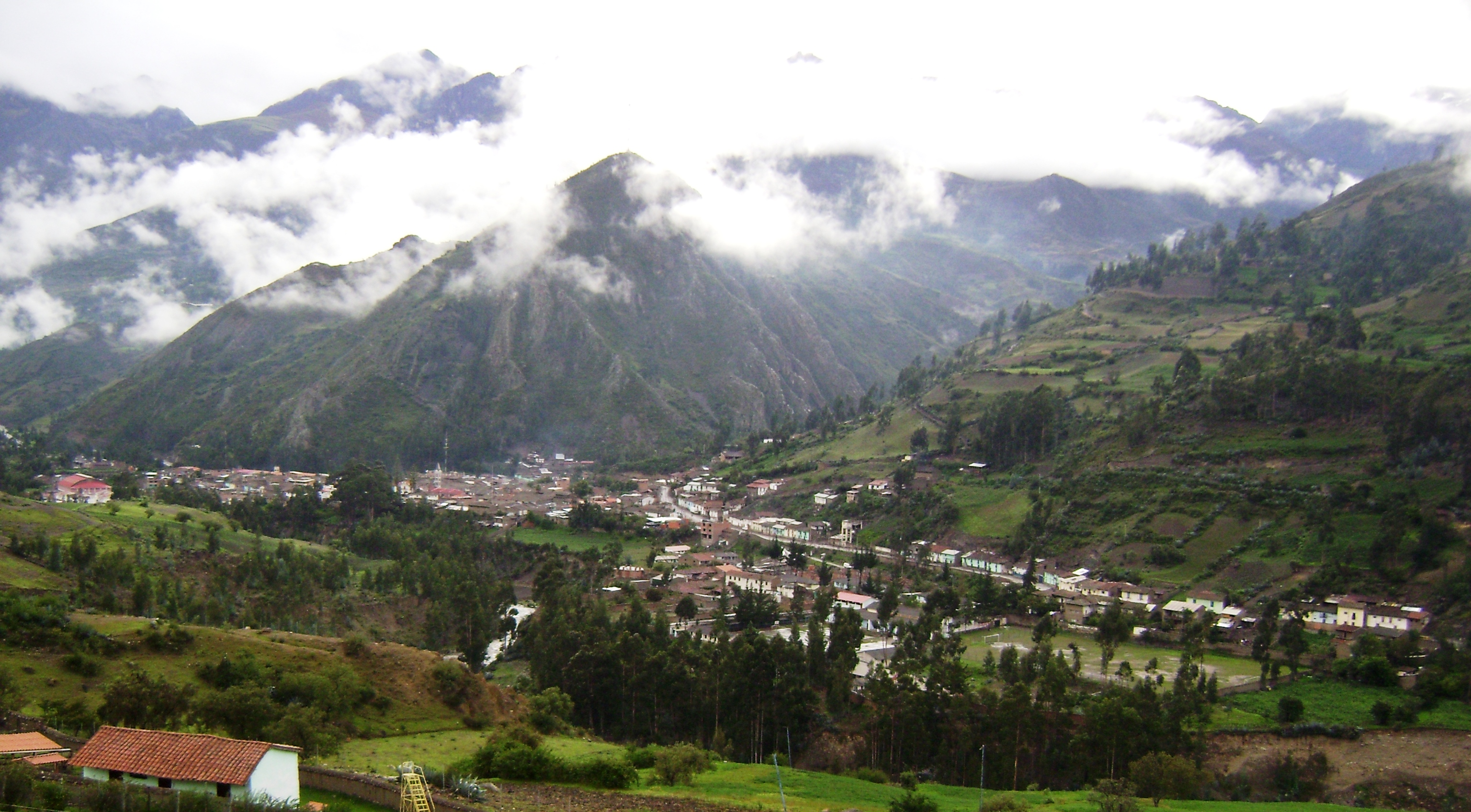 San Marcos, capital city